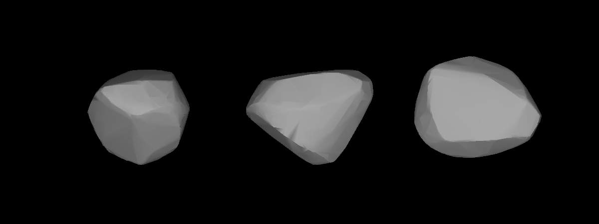 A three-dimensional model of 161 Athor that was computed using light curve inversion techniques.